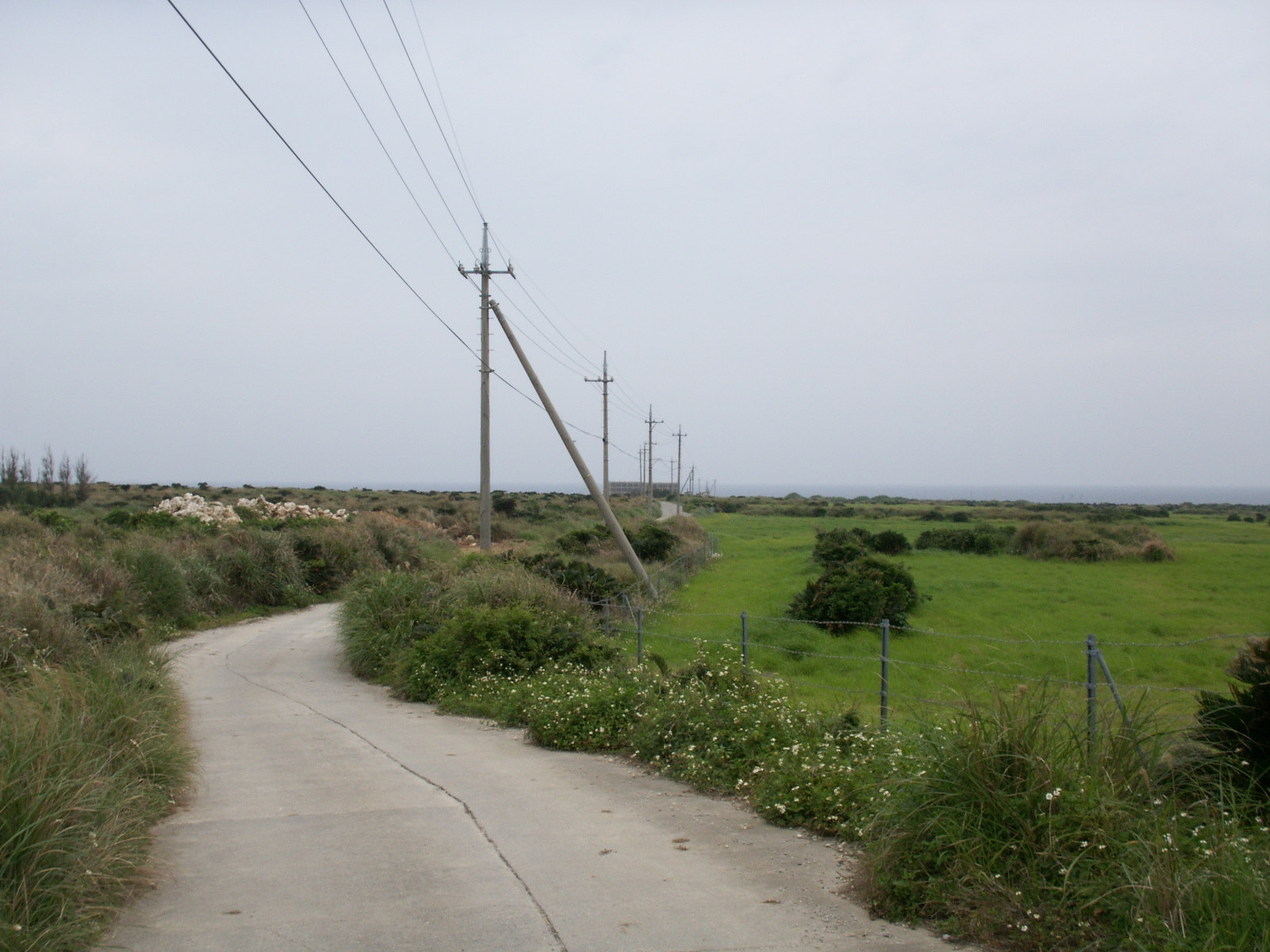 Interior of Aguni Island, Aguni, Okinawa Prefecture, Japan